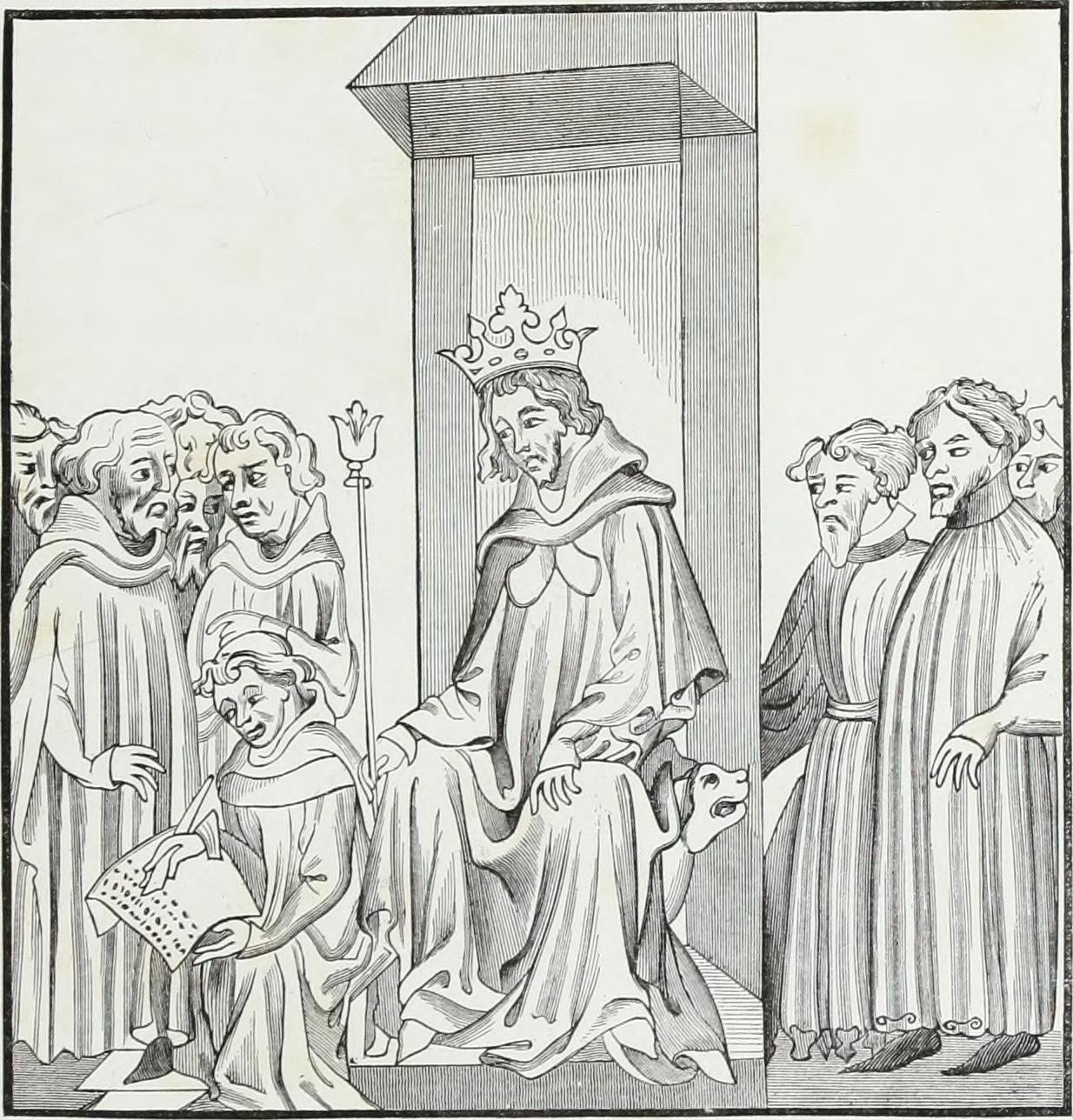 The King of the Franks, in the midst of the Military Chiefs who formed his Treuste, or armed Court, dictates the Salic Law (Code of the Barbaric Laws). Fac-simile of a Miniature in the Chronicles of St. Denis, a Manuscript of the Fourteenth Century (Library of the Arsenal).